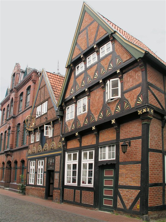 Stade (Germany), Bungenstr. 20-22, photo 2007